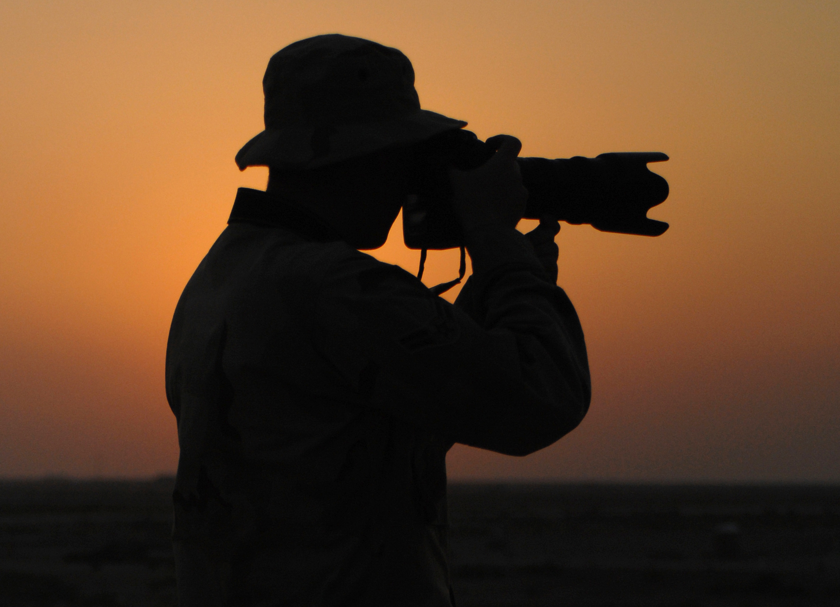 U.S. Air Force Airman 1st Class Jonathan Snyder, of 407th Air Expeditionary Group Public Affairs, captures photographs of flight line operations on Ali Air Base, Iraq, Oct. 3, 2007.